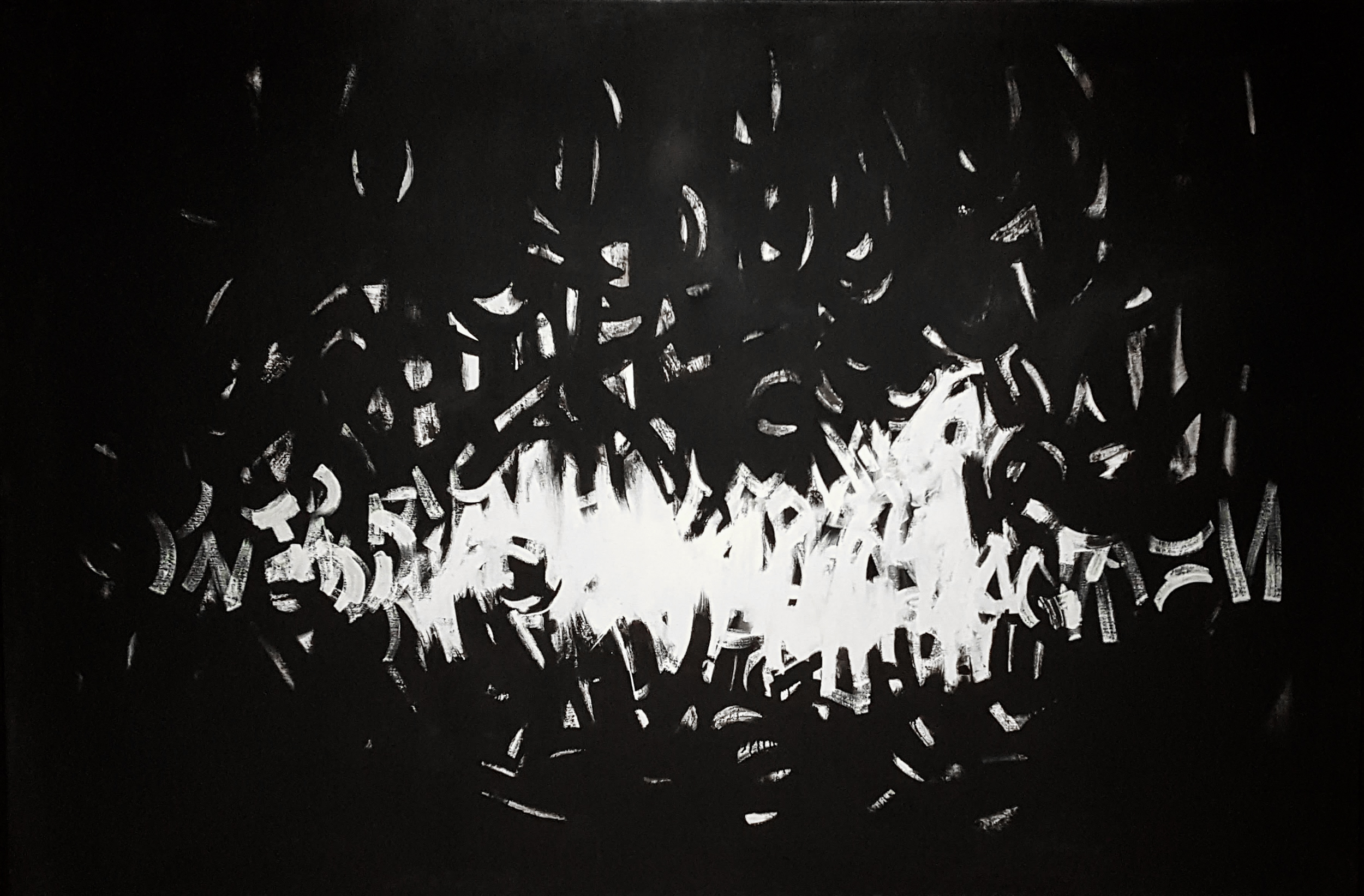 Alabama by Norman Lewis at the Cleveland Museum of Art in Cleveland, Ohio, in the United States. 1960, oil on canvas. Lewis was the only African American to associate with and exhibit alongside the original group of Abstract Expressionists. He limited his palette to black and white, and used it to address current social issues.